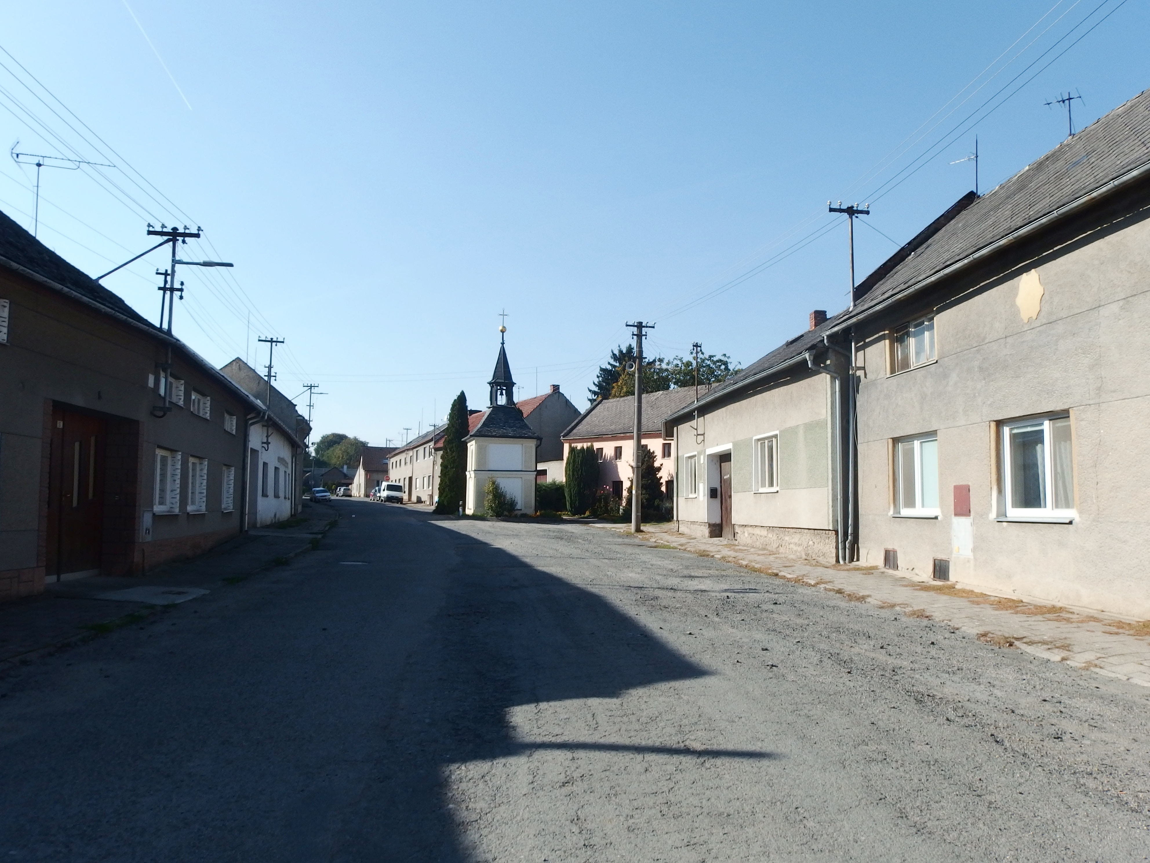 Kožušany-Tážaly, Olomouc District, Czech republic, part Tážaly.